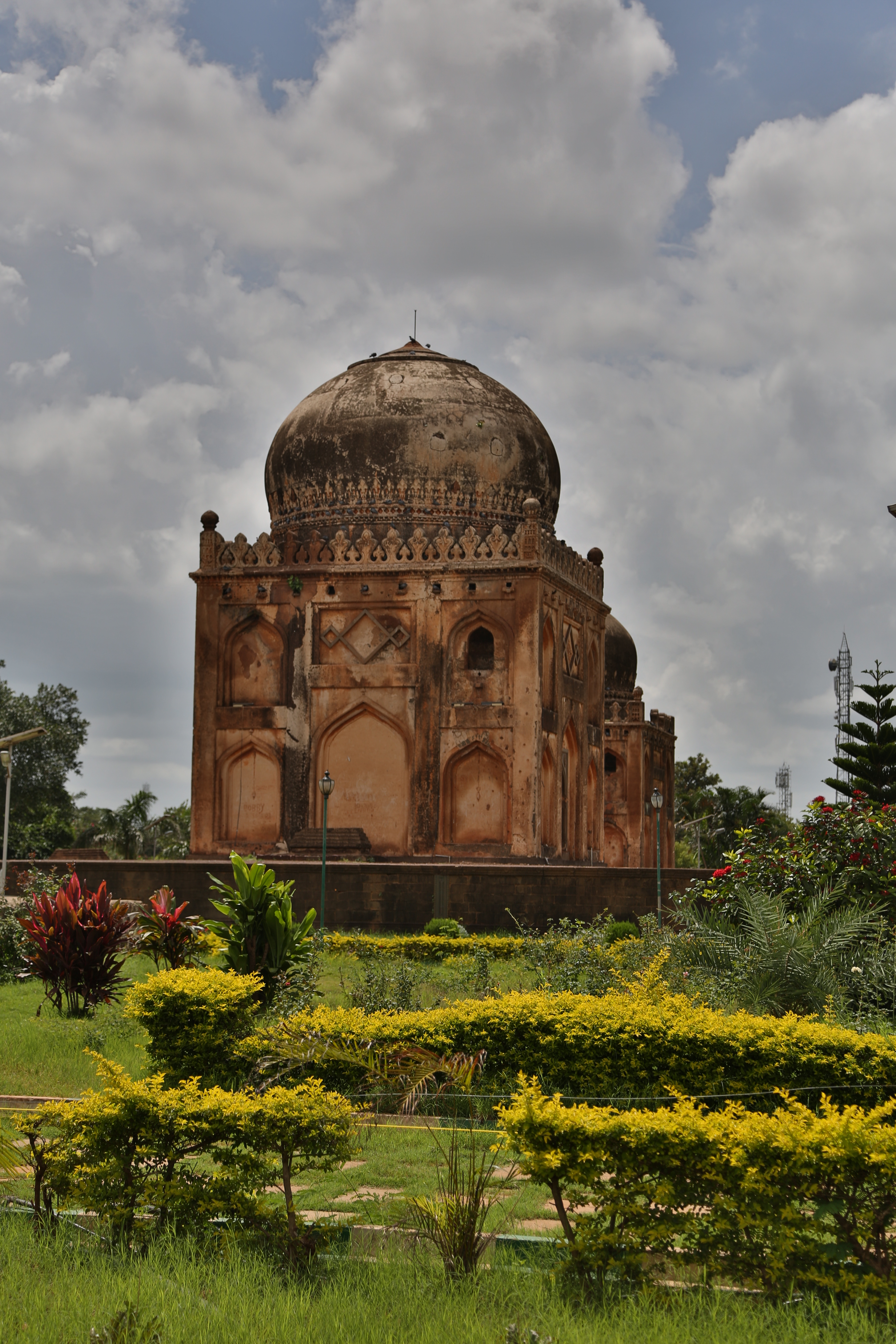 Barid Shahi Tombs